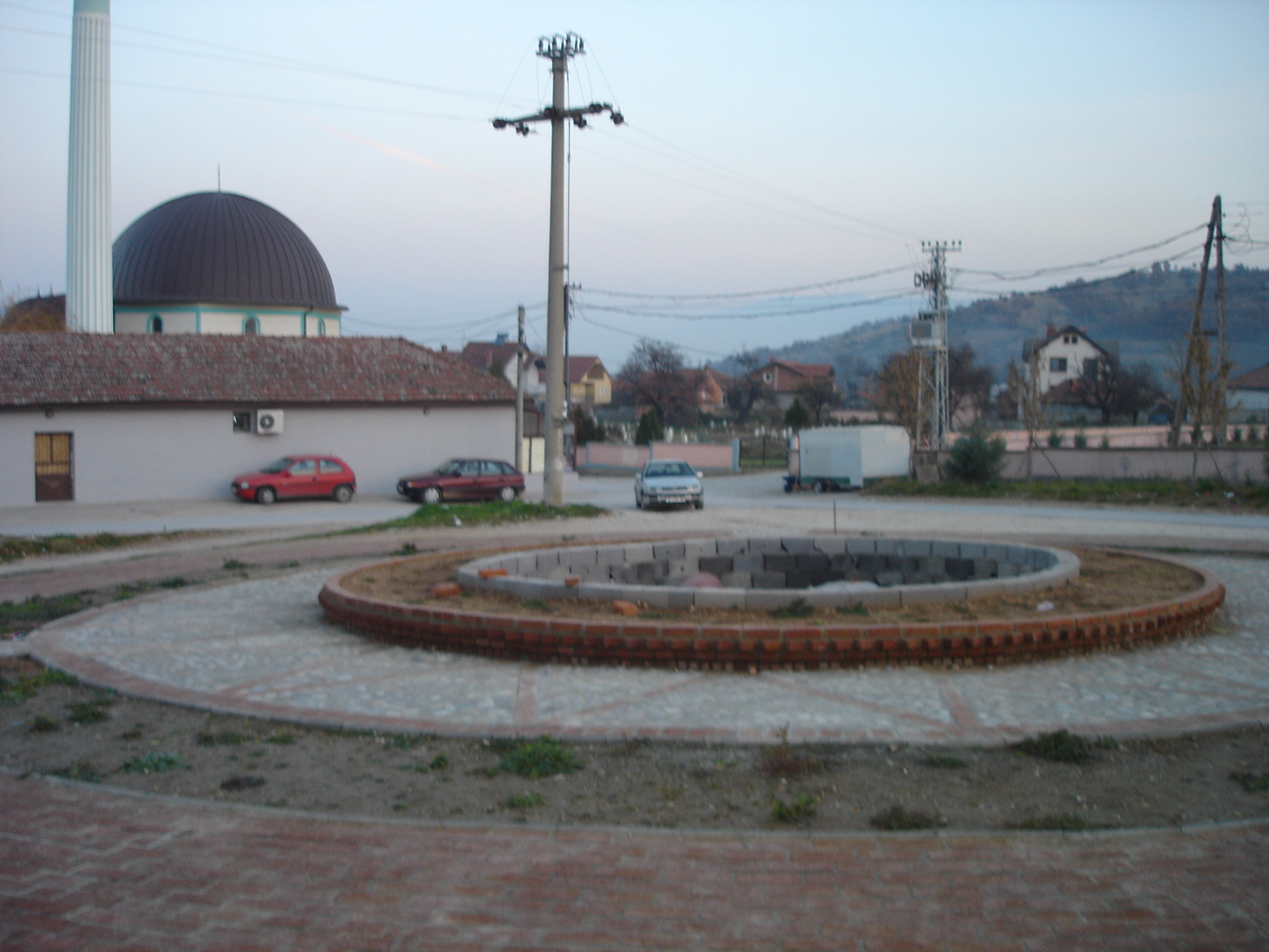 village of Rashche near Skopje, Macedonia